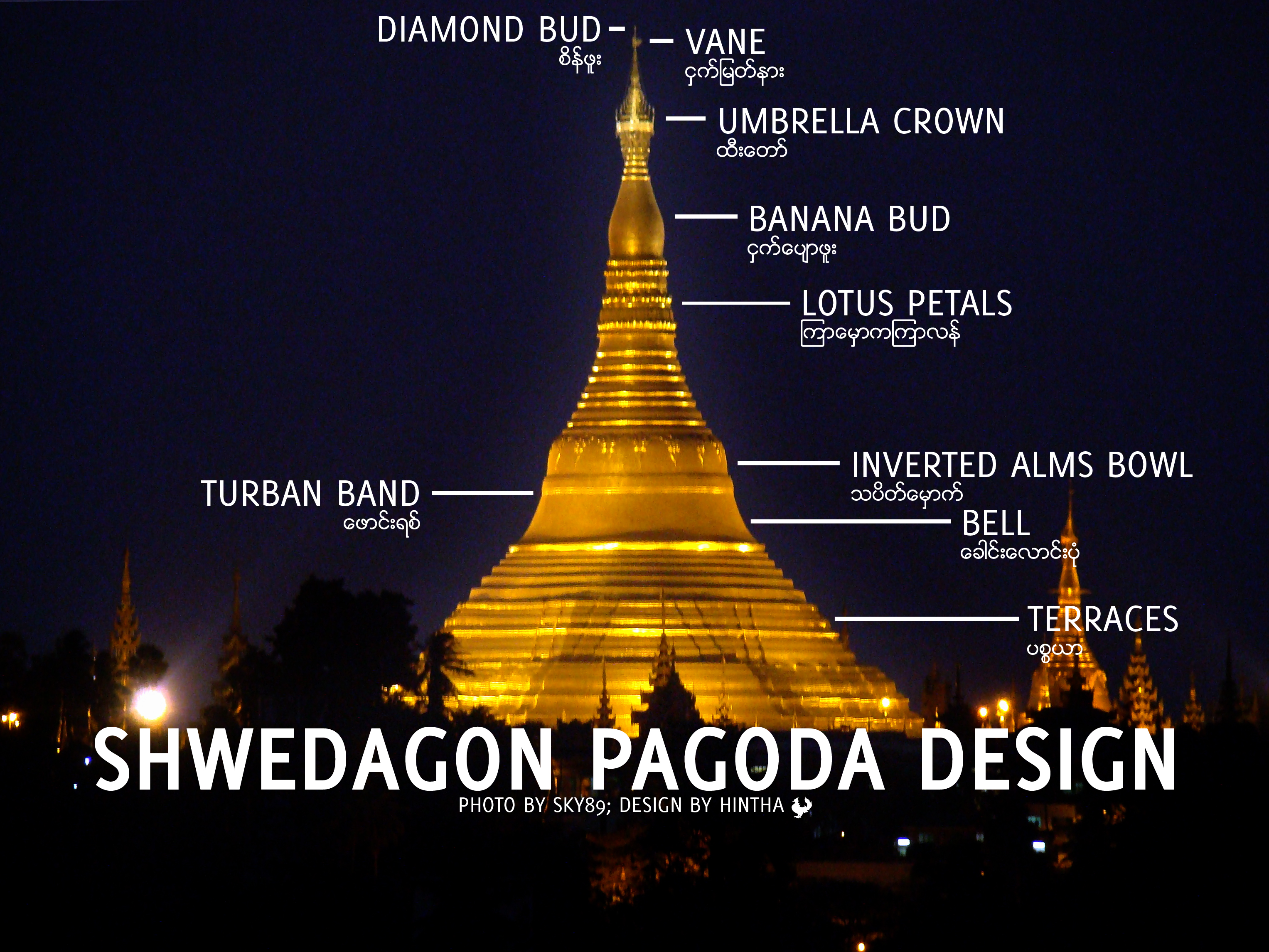 Burmese and English text of the different features comprising the design of Shwedagon Pagoda and other typical Burmese pagodasDesign features: Diamond bud (စိန်ဖူး) Vane (ငှက်မြတ်နား) Umbrella crown (ထီးတော်) Banana bud (ငှက်ပျောဖူး) Lotus petals (ကြာမြောက်ကြာလန်) Mid-fruit (လည်သီး) Inverted alms bowl (သပိတ်မှောက်) Floral design (ပန်းဆွဲ) Turban band (ဖောင်းရစ်) Bell (ခေါင်းလောင်းပုံ) Terraces (ပစ္စယာ)